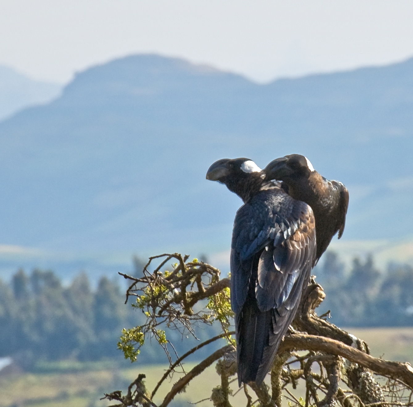 I came across this charming pair of Thick-billed Ravens (Corvus crassirostris) on the grounds of the Simien Lodge in the Simien Mountains of Ethiopia. According to Wikipedia, the Thick-billed Raven is the largest member of its family, the Corvids, which includes crows, ravens, rooks, jackdaws, jays, magpies, treepies, choughs and nutcrackers. In fact, the Thick-billed Raven is the largest member of the order that includes all perching birds. Wikipedia says this bird's range "covers Eritrea, Somalia and Ethiopia; its habitat includes mountains and high plateau between elevations of 1500 to 2400 metres." This pair must not have read Wikipedia, because the site where I photographed them was at 3,260 meters above sea level.